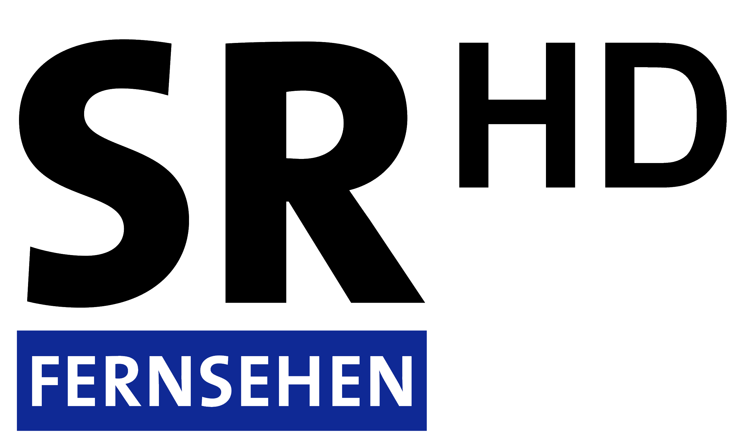 Logo of the Testrun of SR HD since February 17th 2016.